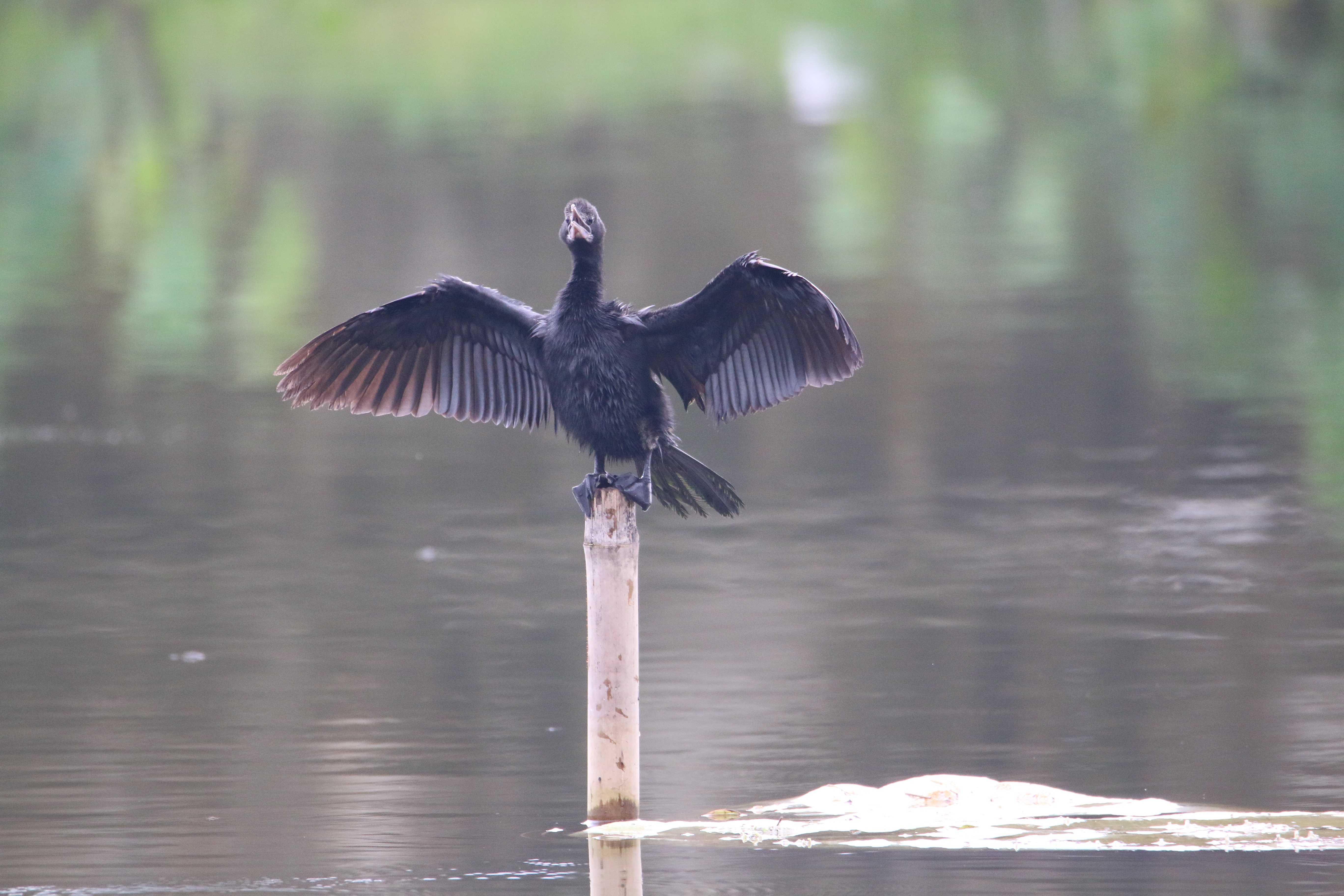 Cormorant in Mainaguri, Jalpaiguri, India